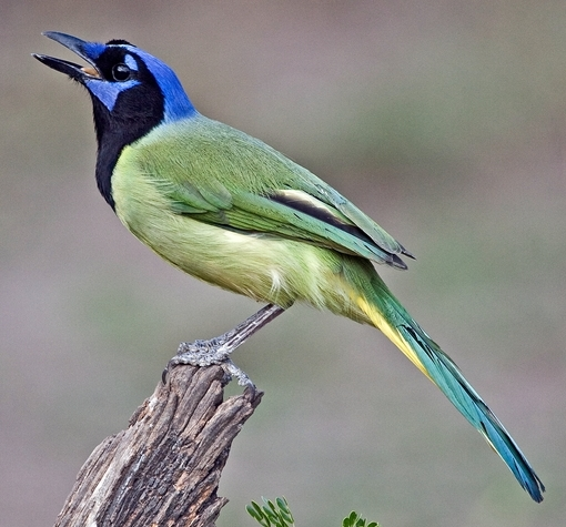 Green Jay Cyanocorax luxuosus, Ramirez Ranch, Near Roma, Texas